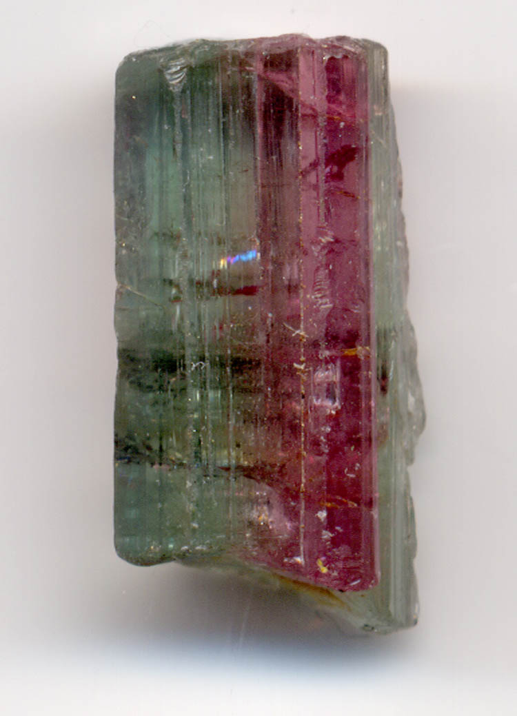 Bi-coloured Tourmaline crystal, 0.8 inches long (2 cm). Made without a camera by laying the item on a flat bed scanner.